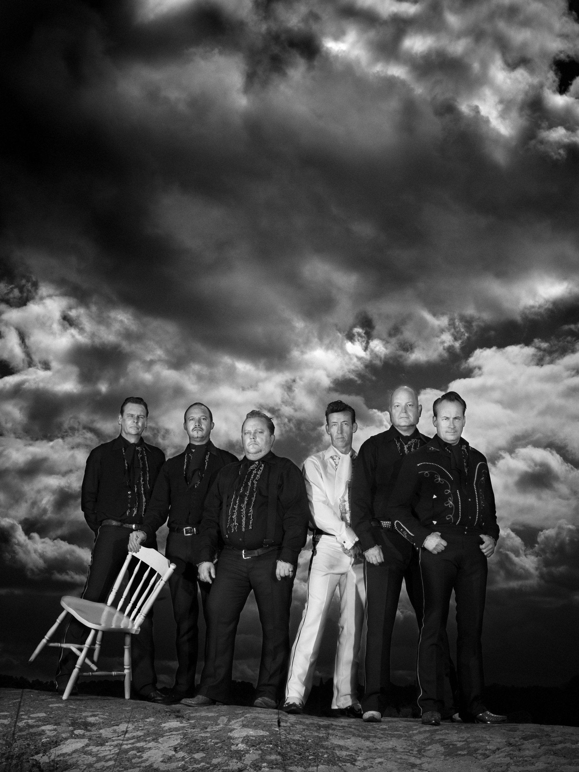 Press picture of Fatboy